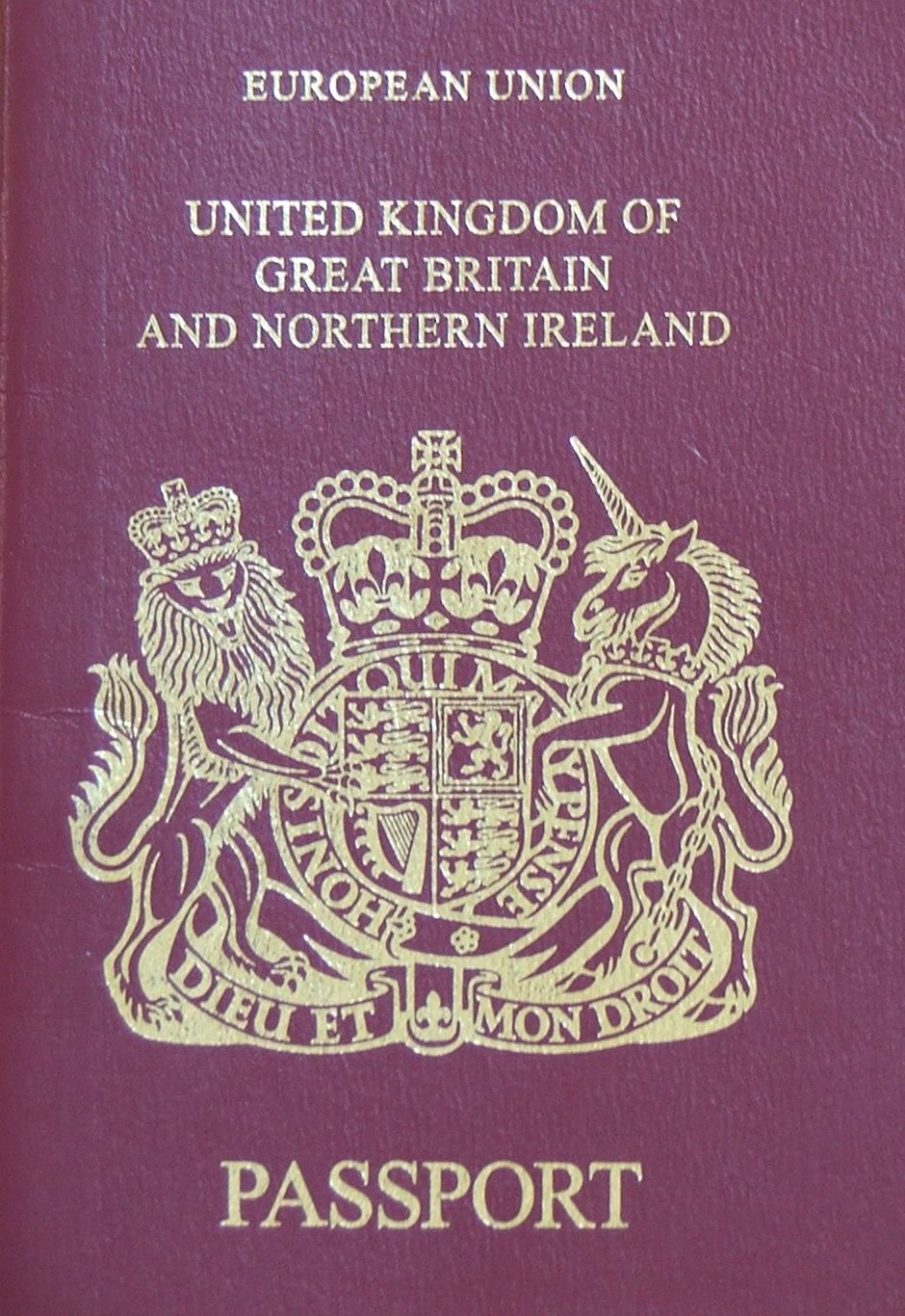 Front cover of British passport issued in 2020